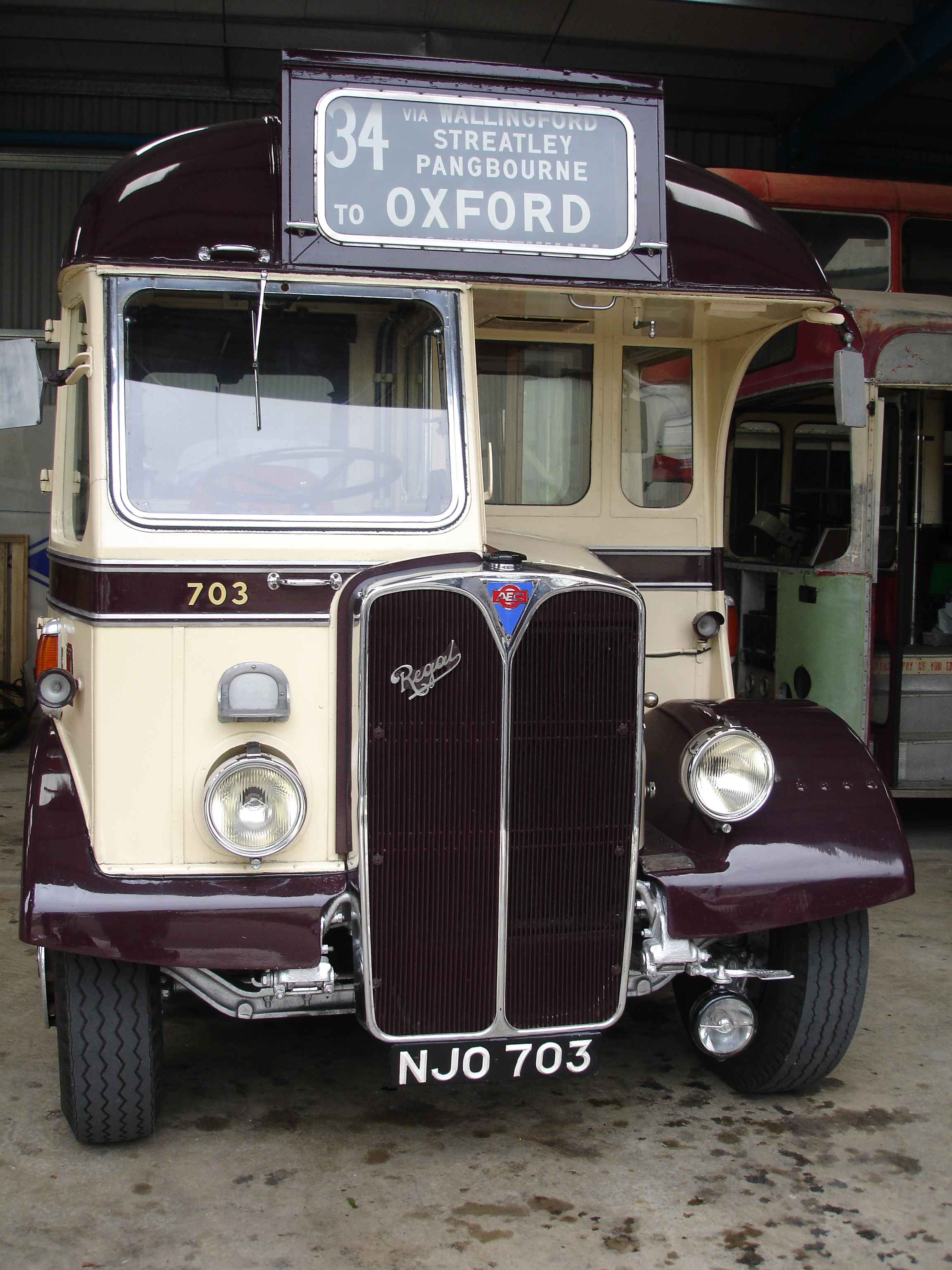 1949 AEC Regal III bus, registration mark NJO 703, at Oxford Bus Museum, Long Hanborough, Oxfordshire. This bus was operated by City of Oxford Motor Services.